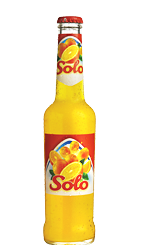 Image of a traditional Solo bottle.